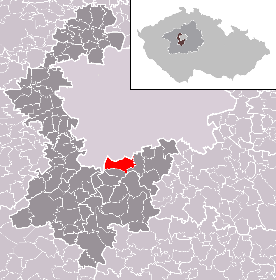 Location of Dolní Břežany municipality within Prague-West District and administrative area of Černošice as a Municipality with Extended Competence.